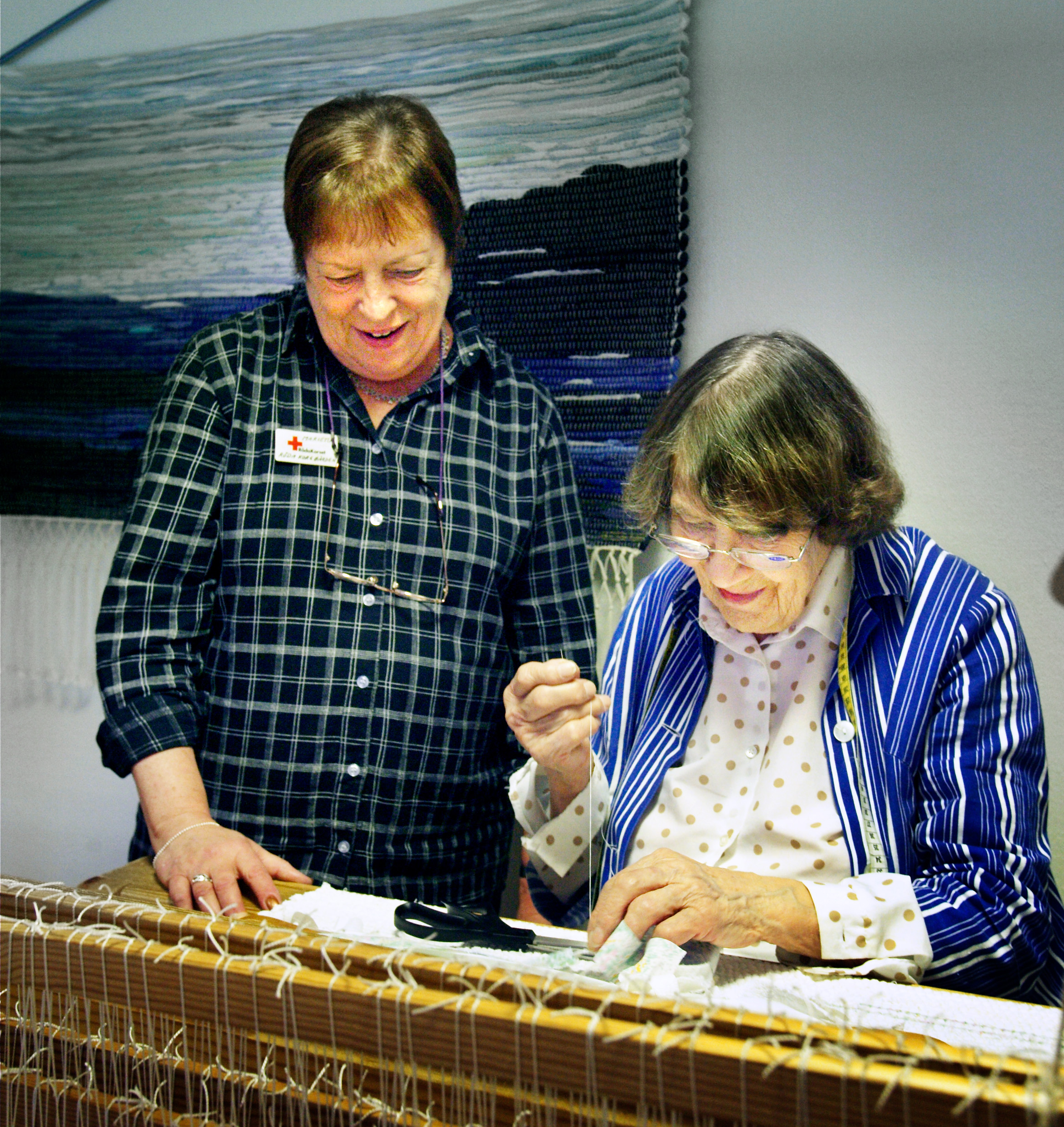 Vuxenutbildning Keywords: Working Life, Education, Elderly people